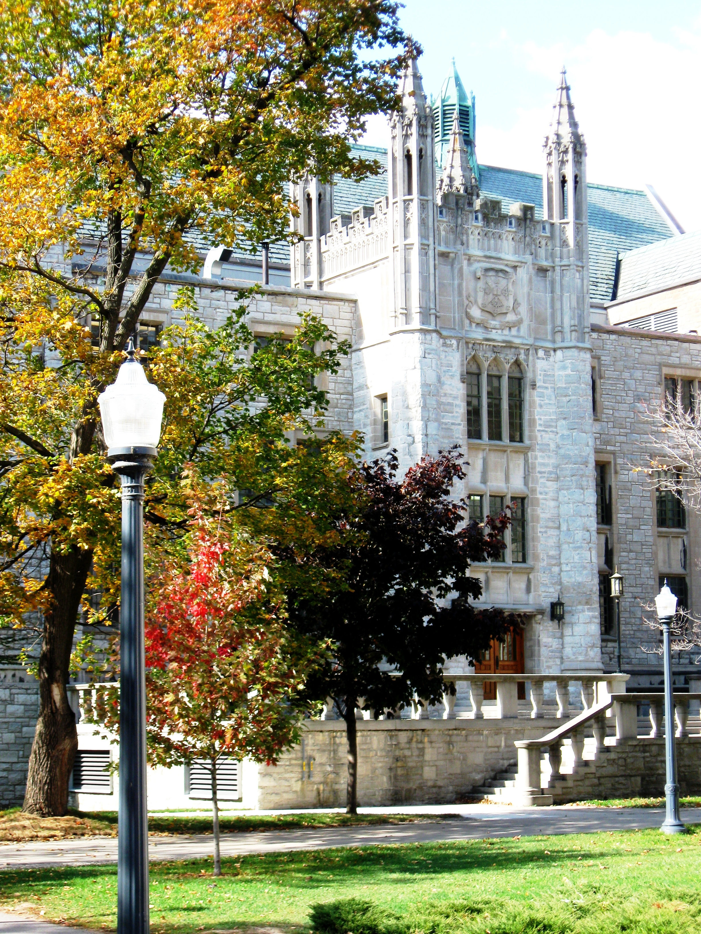 The back of Douglas Library